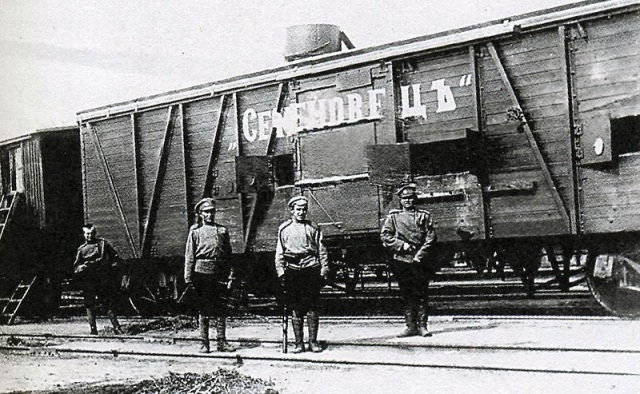 Armoured train Semenovets under command of general Nikolay Bogomolets